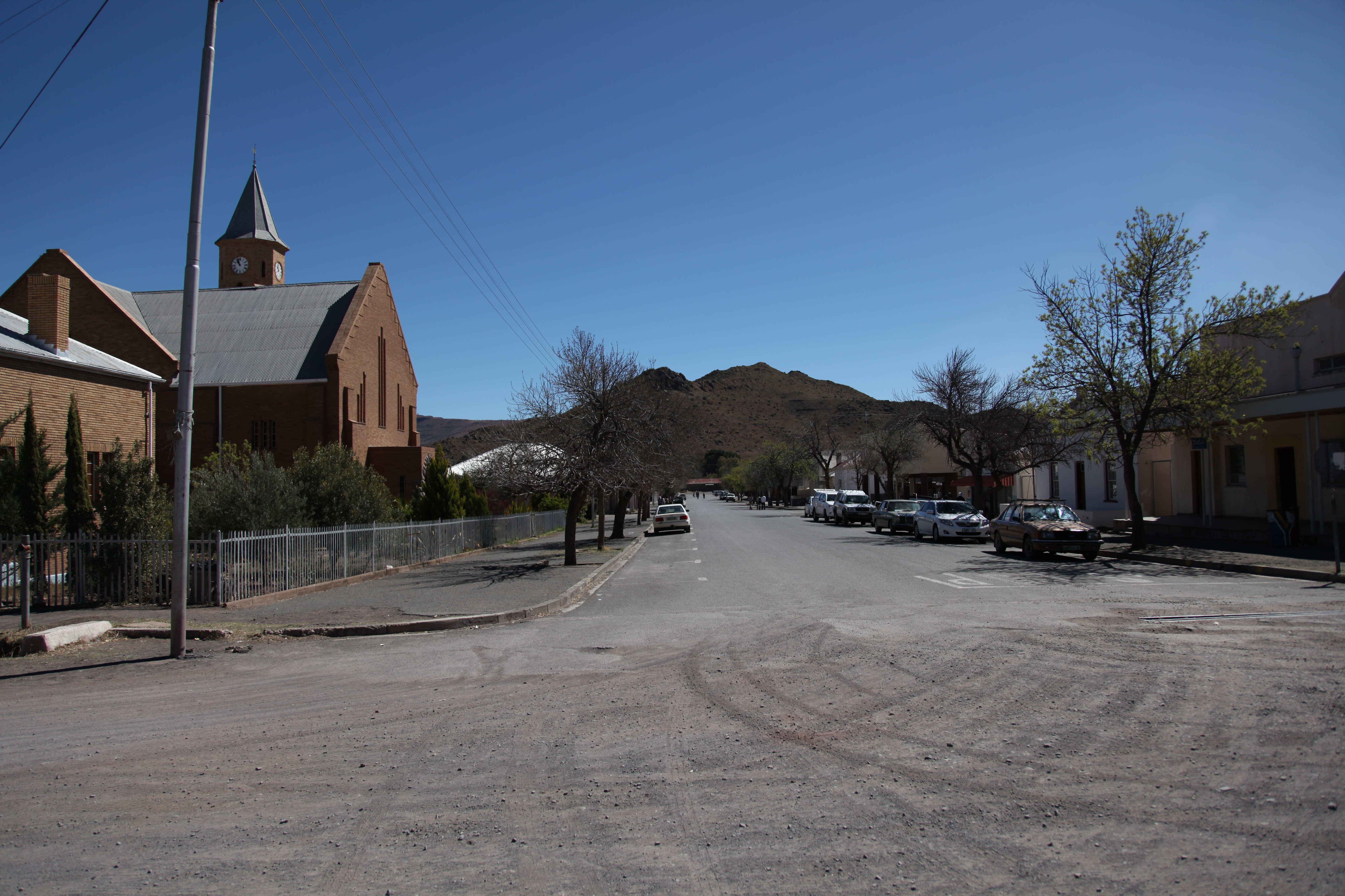 Street in Steynsburg